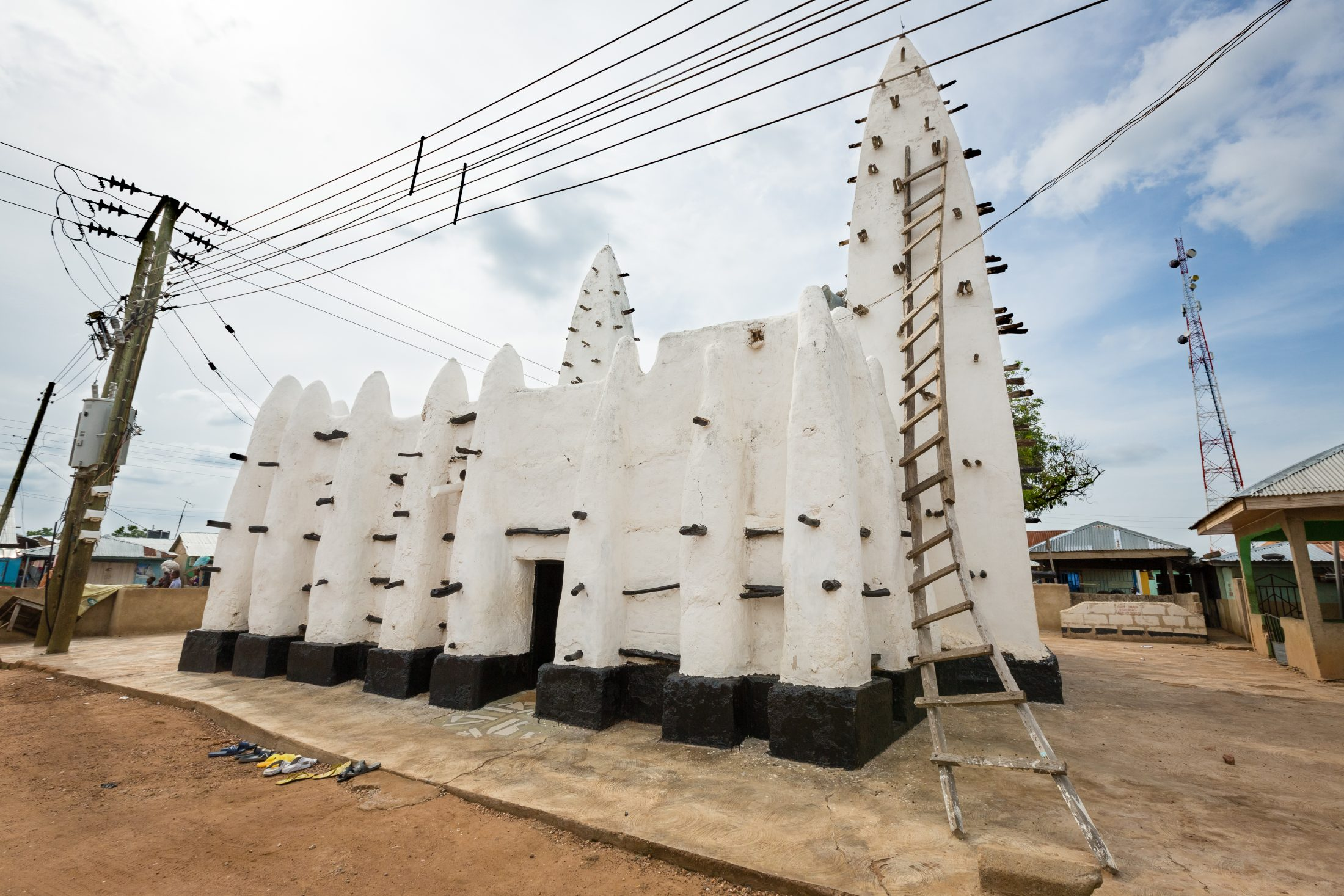 This is the southern side of the mosque in Maluwe in Ghana.